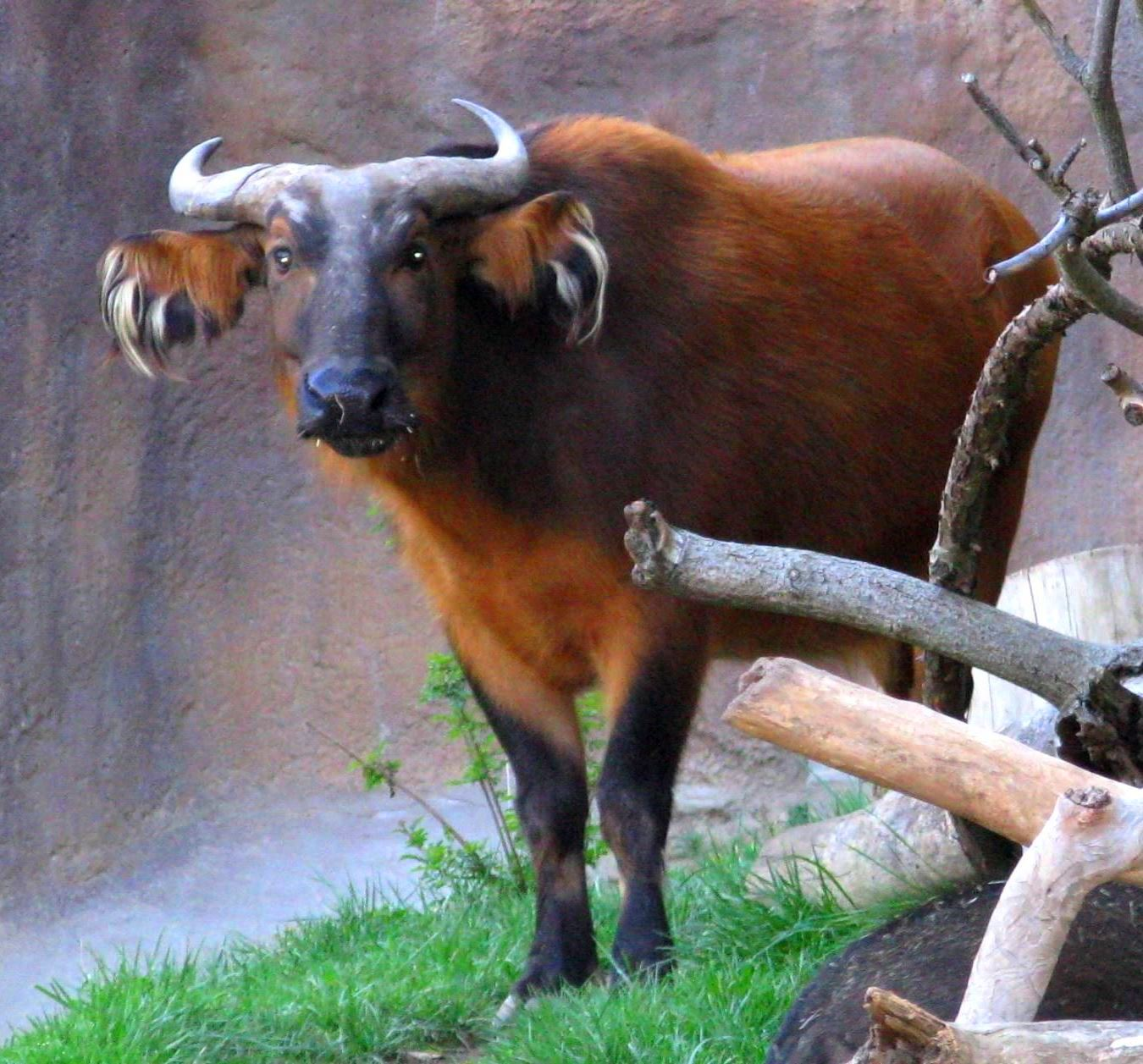 African Forest Buffalo, taken at San Diego Zoo